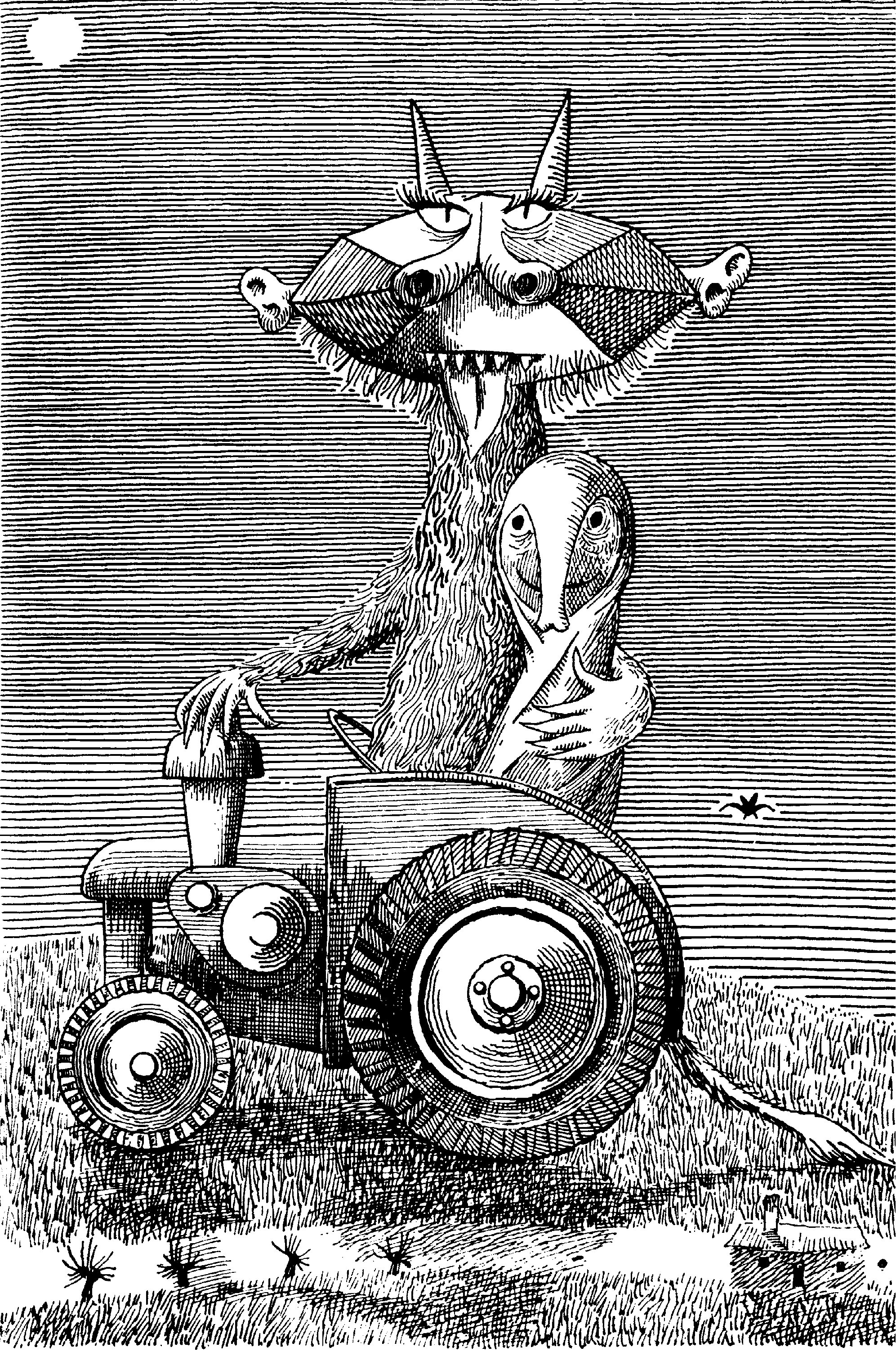 illustration for Sławomir Mrożek's book „Słoń” (The Elephant”) (Wydawnictwo Literackie, Poland, 1957)